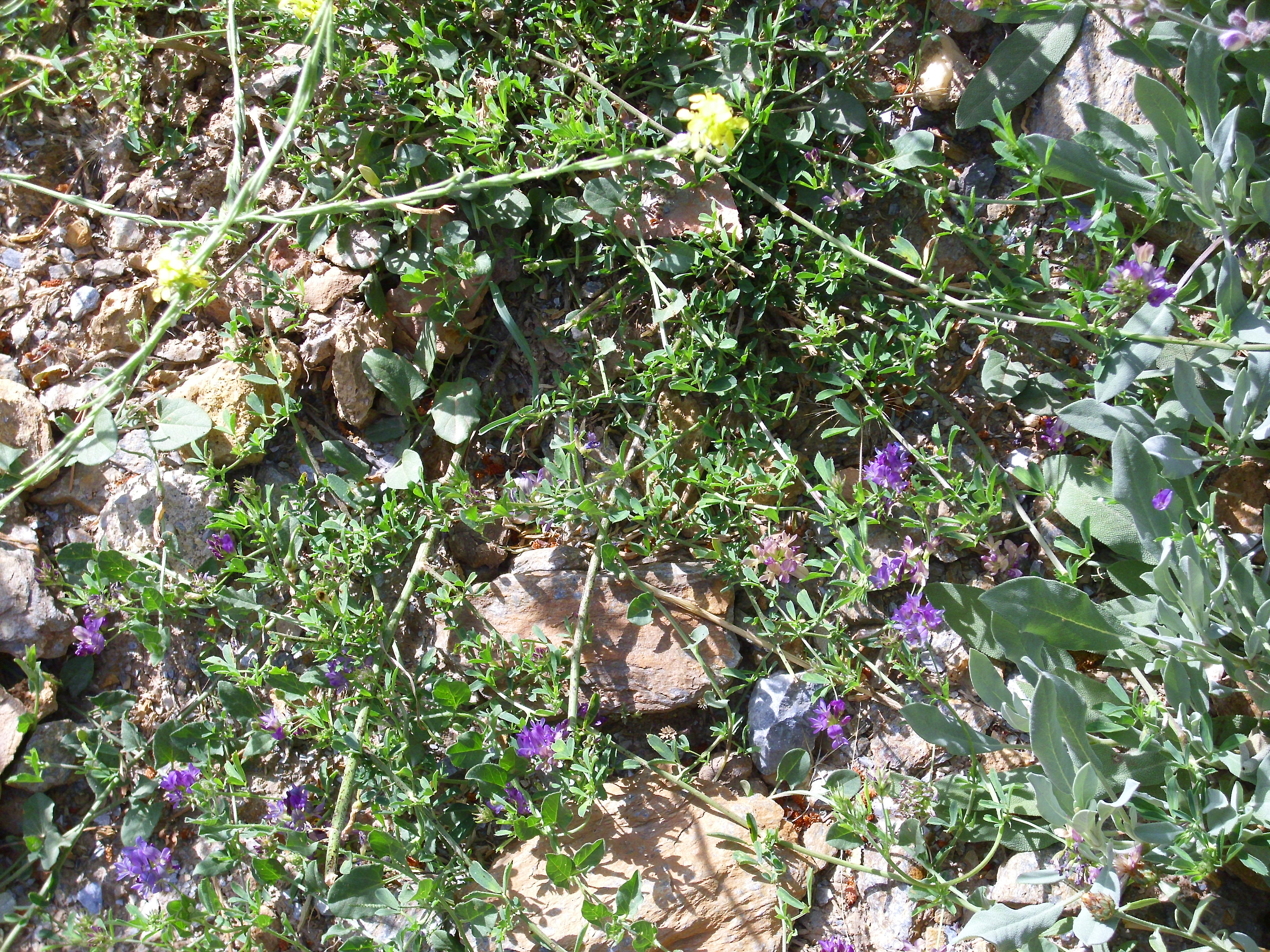 Astragalus glaux habit, Sierra Nevada, Spain